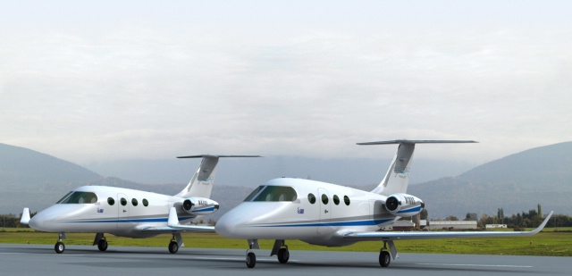 avocetmountain